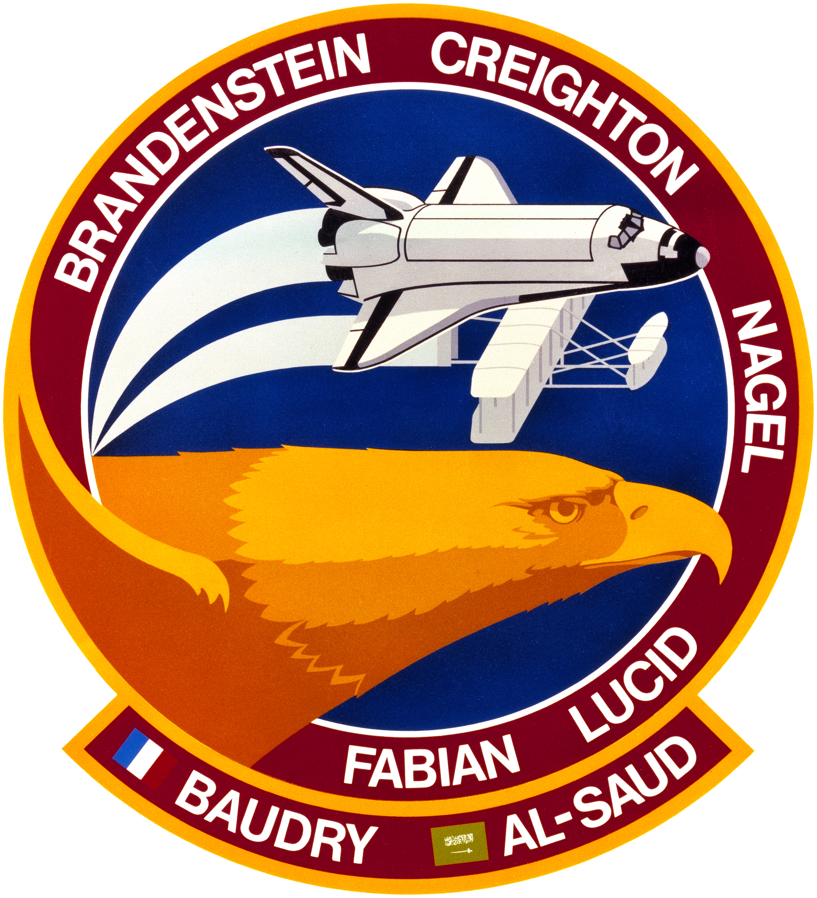 Shuttle mission 51-G patch The STS-51G insignia illustrates the advances in aviation technology in the United States within a relatively short span of the twentieth century. The surnames of the crewmembers for the Discovery's mission appear near the center edge of the circular design.